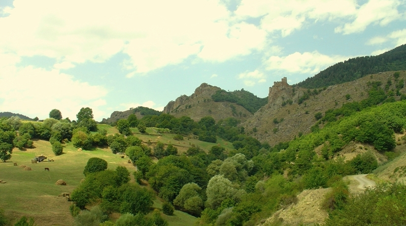 Zanavi Fortress